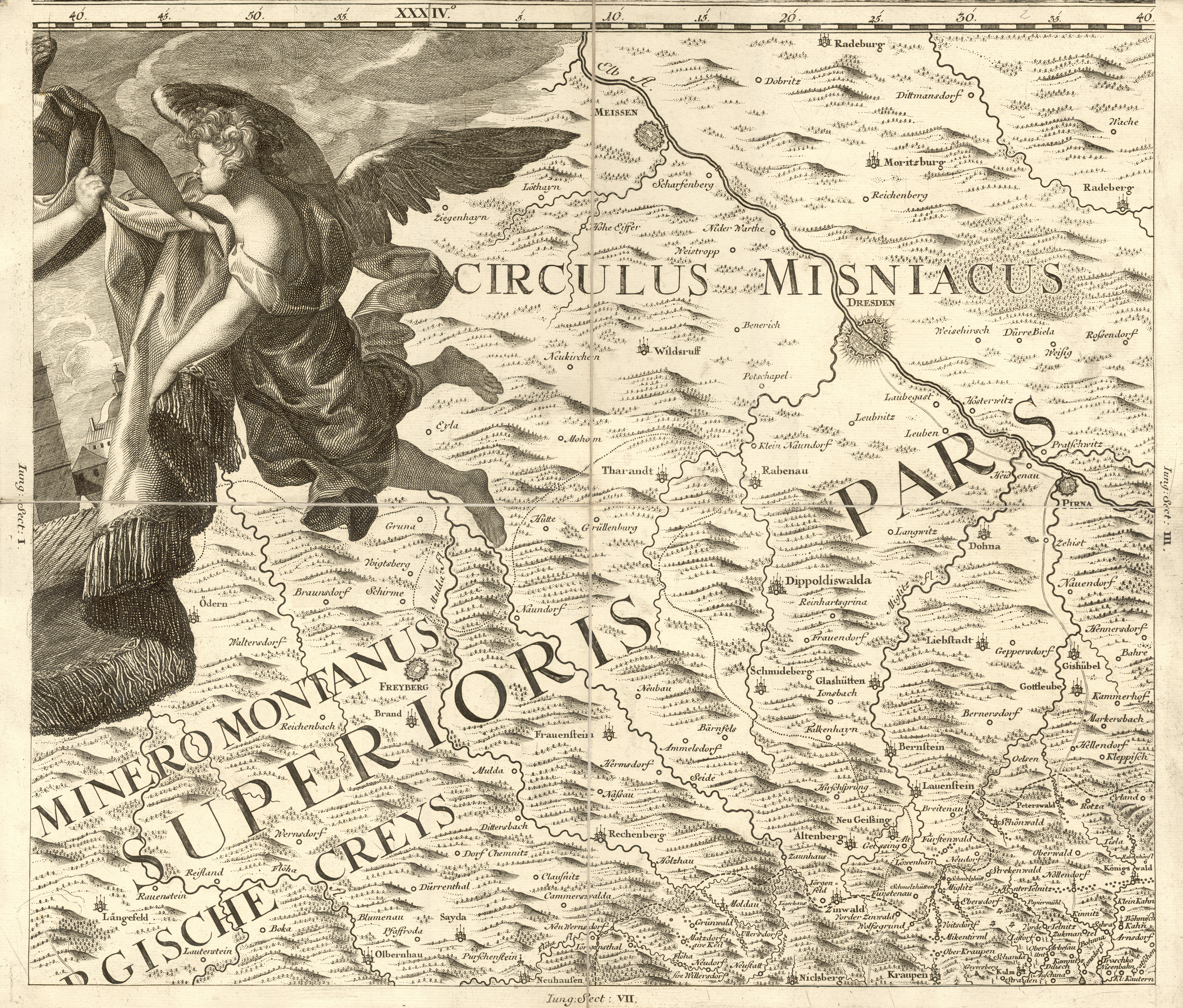 Müller's map of Bohemia.